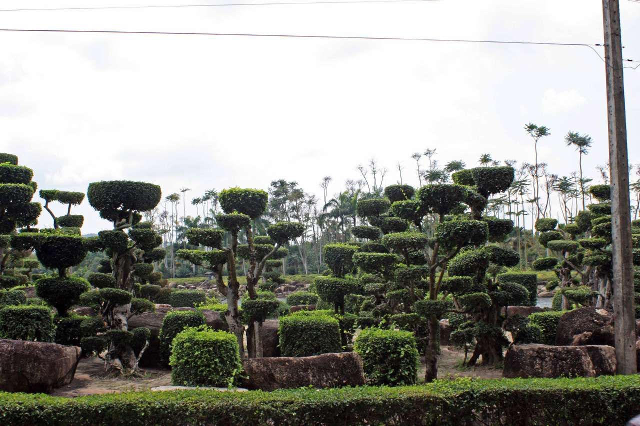 Nong Nooch botanical garden, Bonsai garden, Thailand